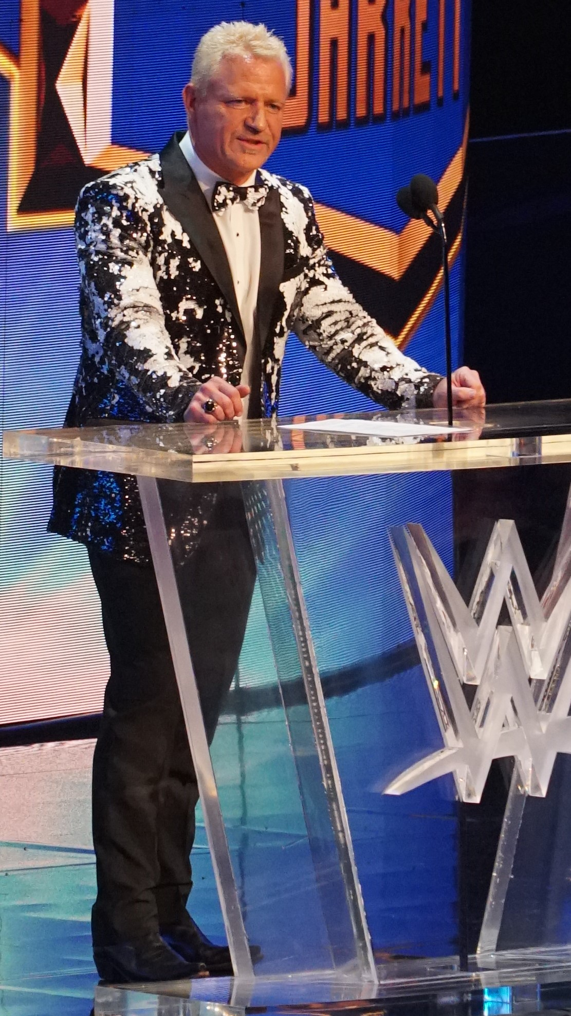 Jeff Jarrett being inducted into the WWE Hall of Fame, class of 2018.